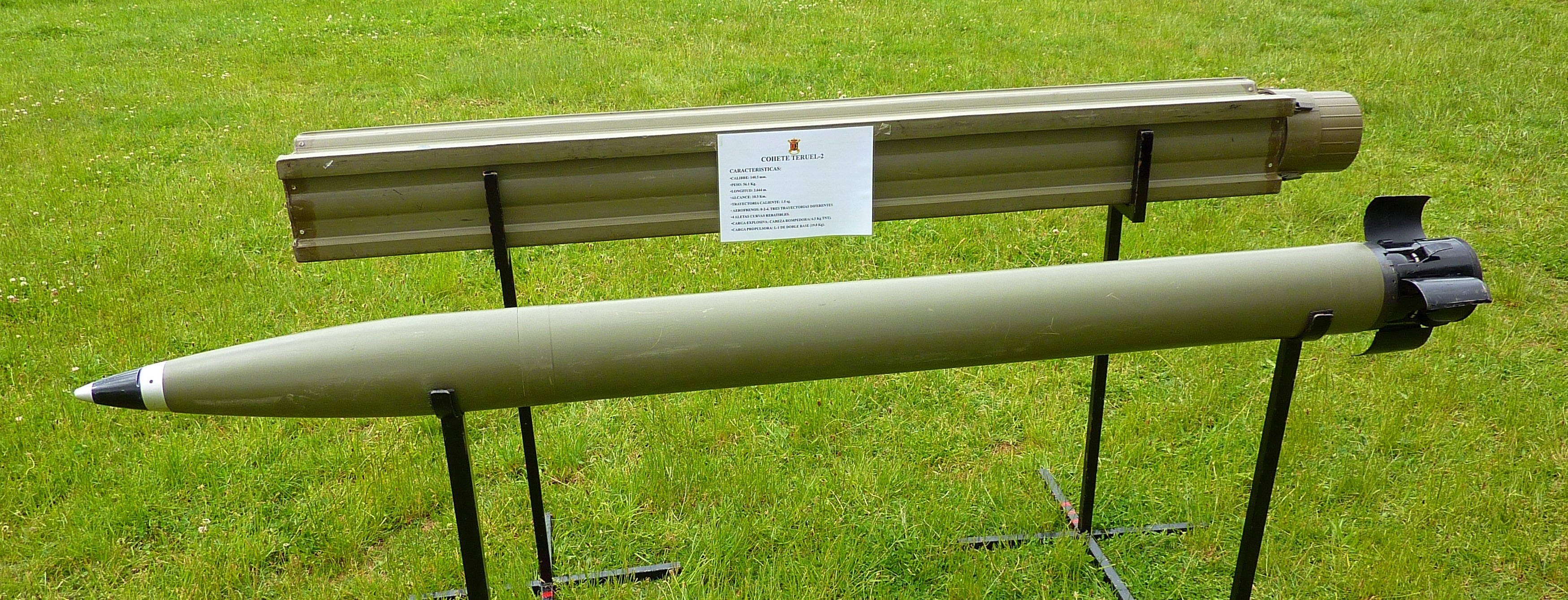 Teruel-2 rocket of the Spanish Army.